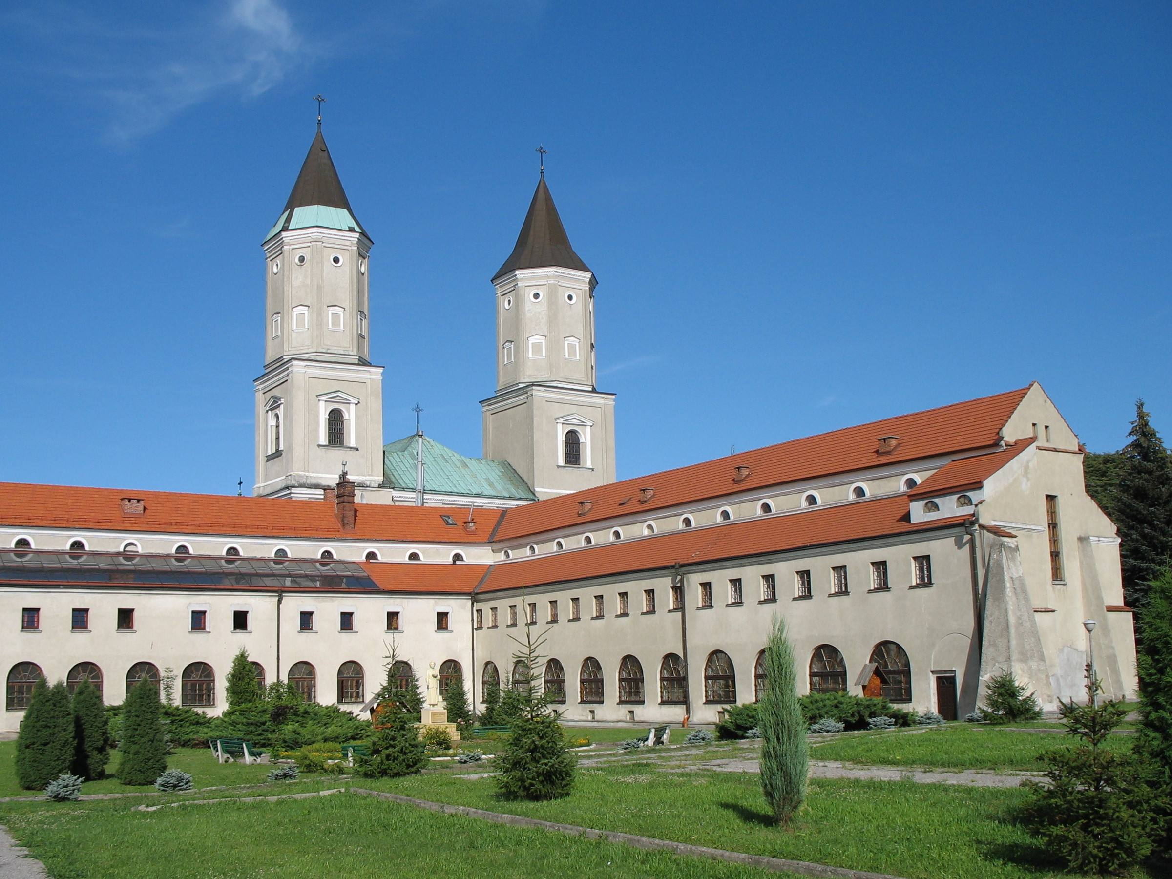 Jarosław (Poland), St.Nicolaus church